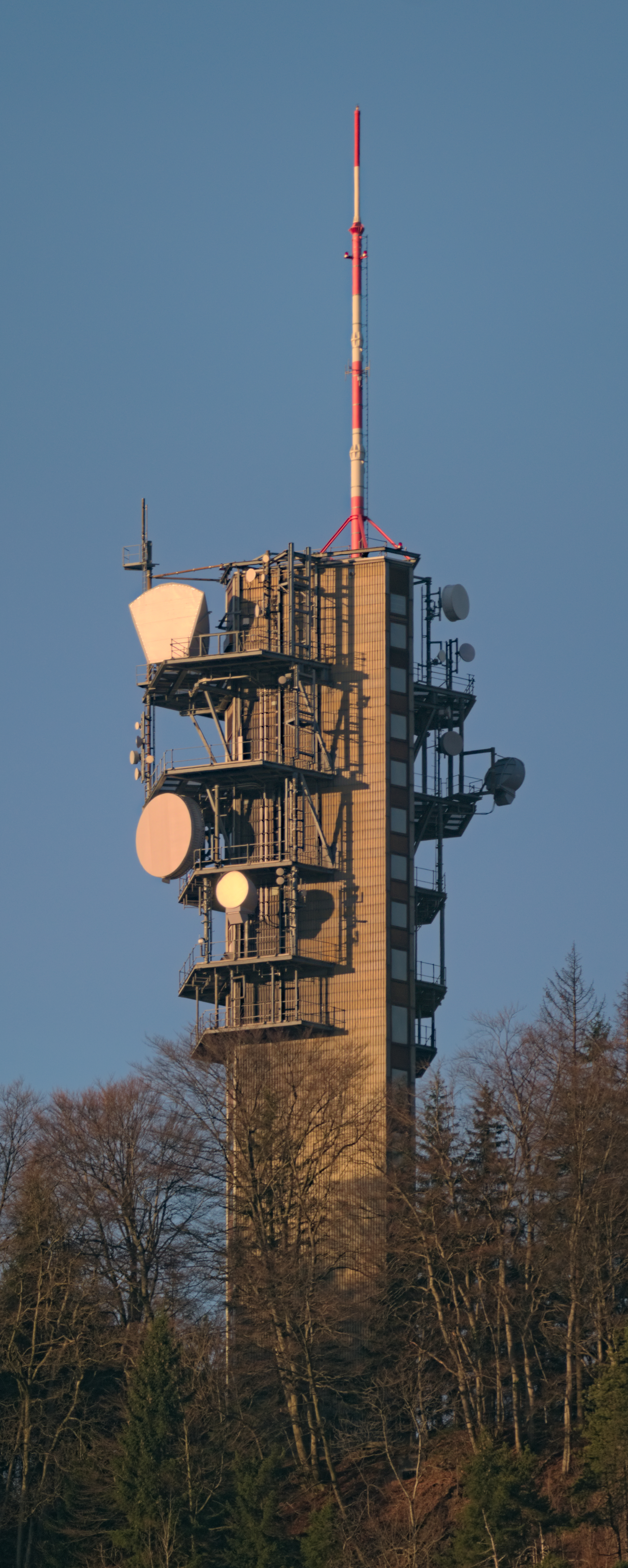 The broadcasting tower Felsenegg-Girstel, as seen from the city of Adliswil (with a long telephoto lens).